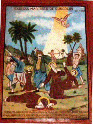 This image is of a 17th century painting in a church in Colva depicting the martyrdom of the five Jesuits in Cuncolim, Goa on July, 25, 1583.